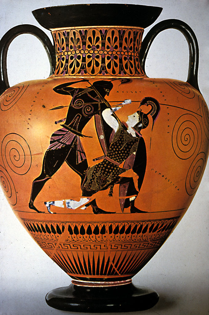 Amphora depicting Achilles and Penthesilea